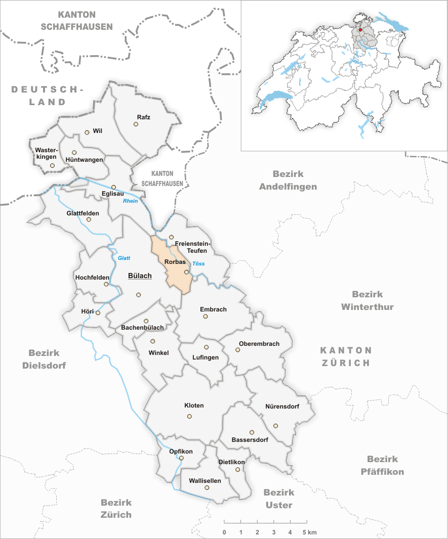 Municipality Rorbas